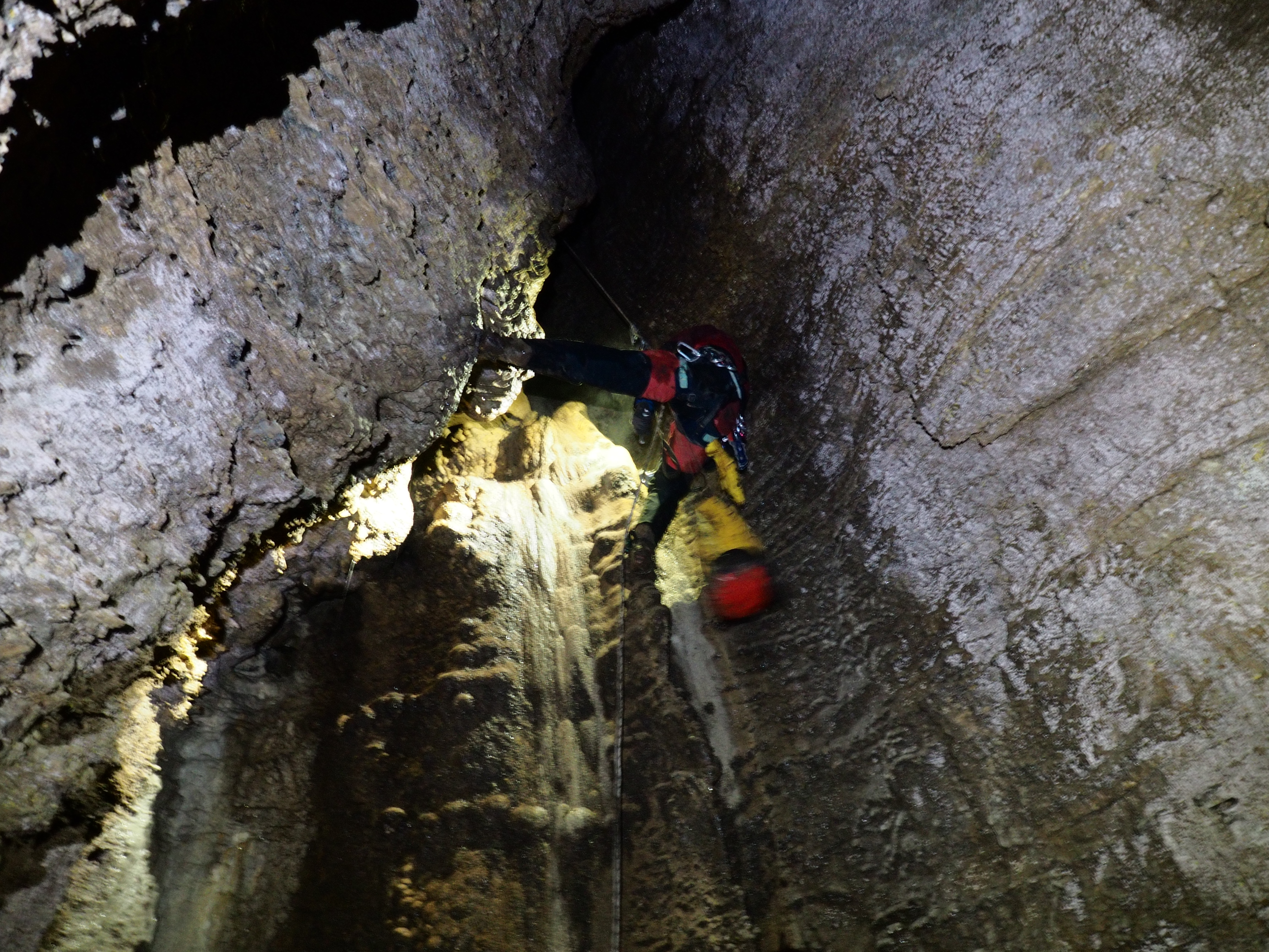 This is a photography of Natura 2000 protected area with ID GR2130009